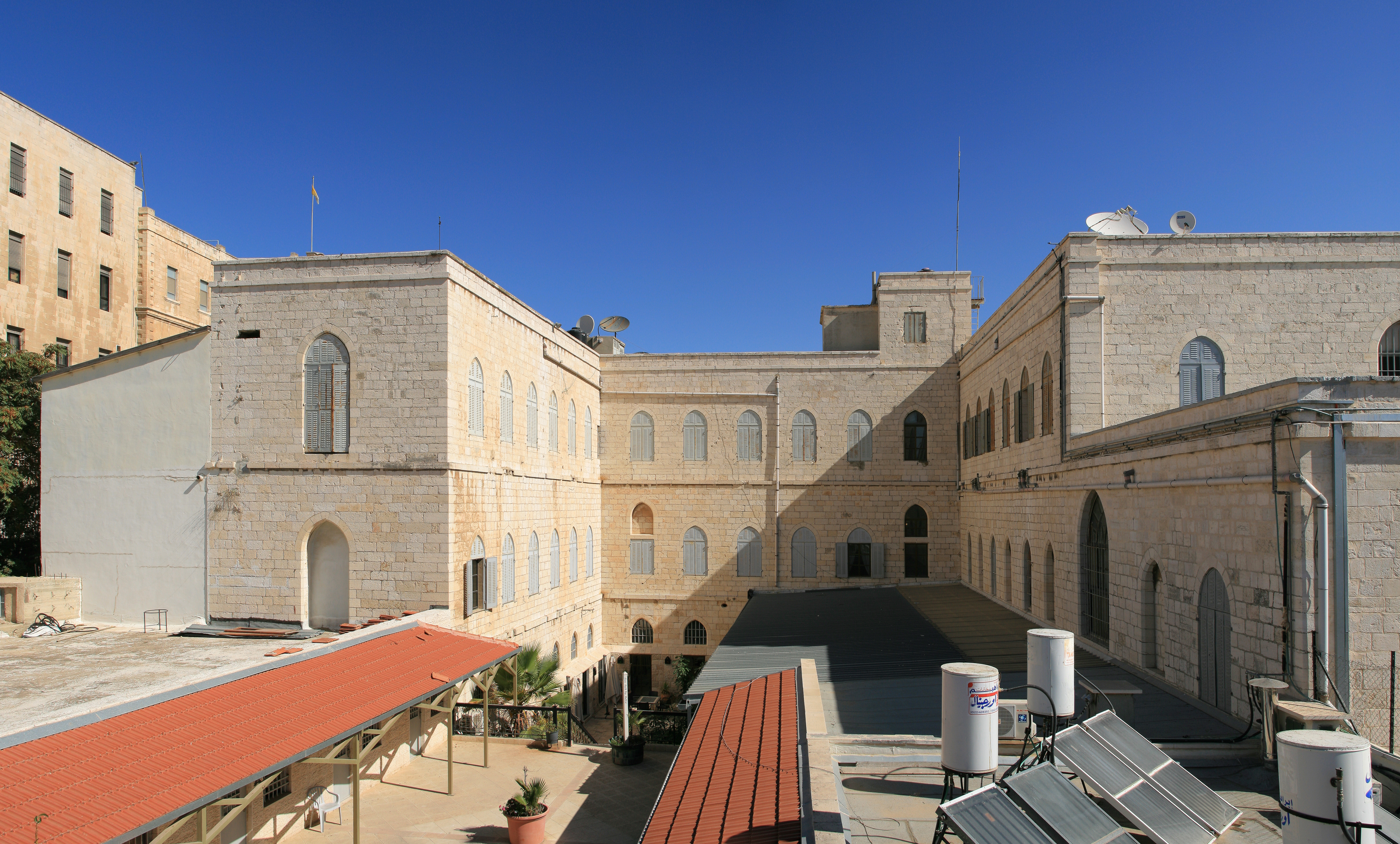 Latin Patriarchate of Jerusalem, Israel